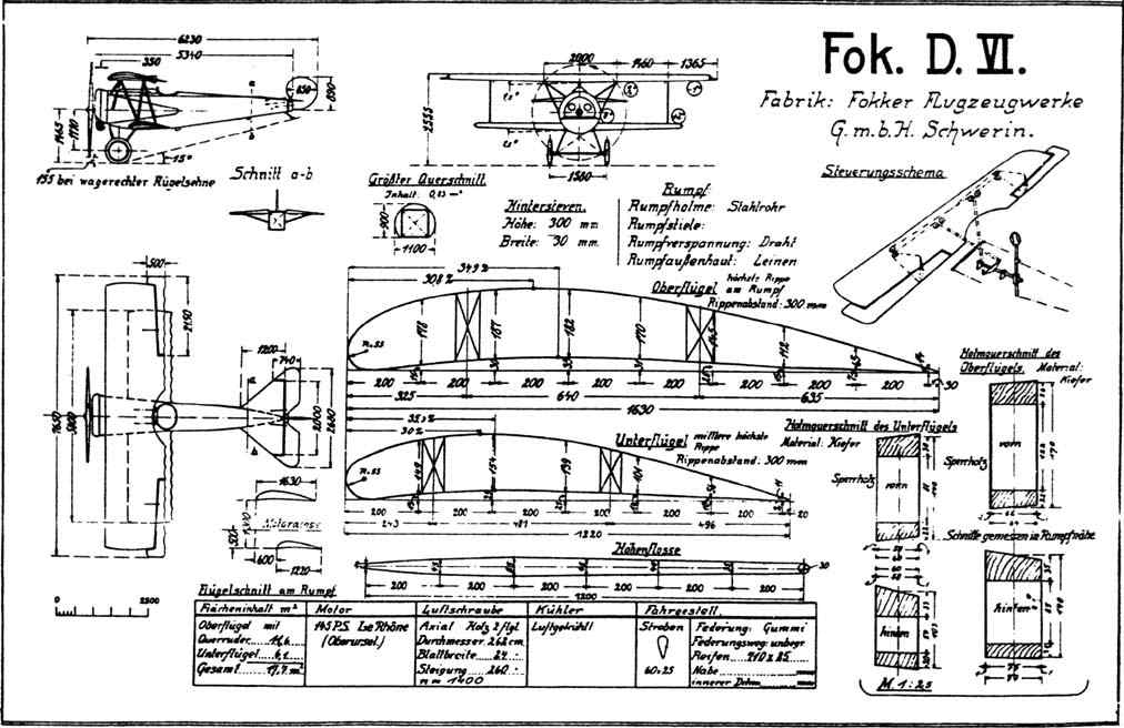 Fokker D.VI German World War 1 single seat fighter and trainer